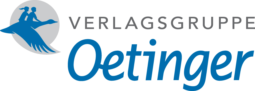 Logo of Oetinger Publishing House